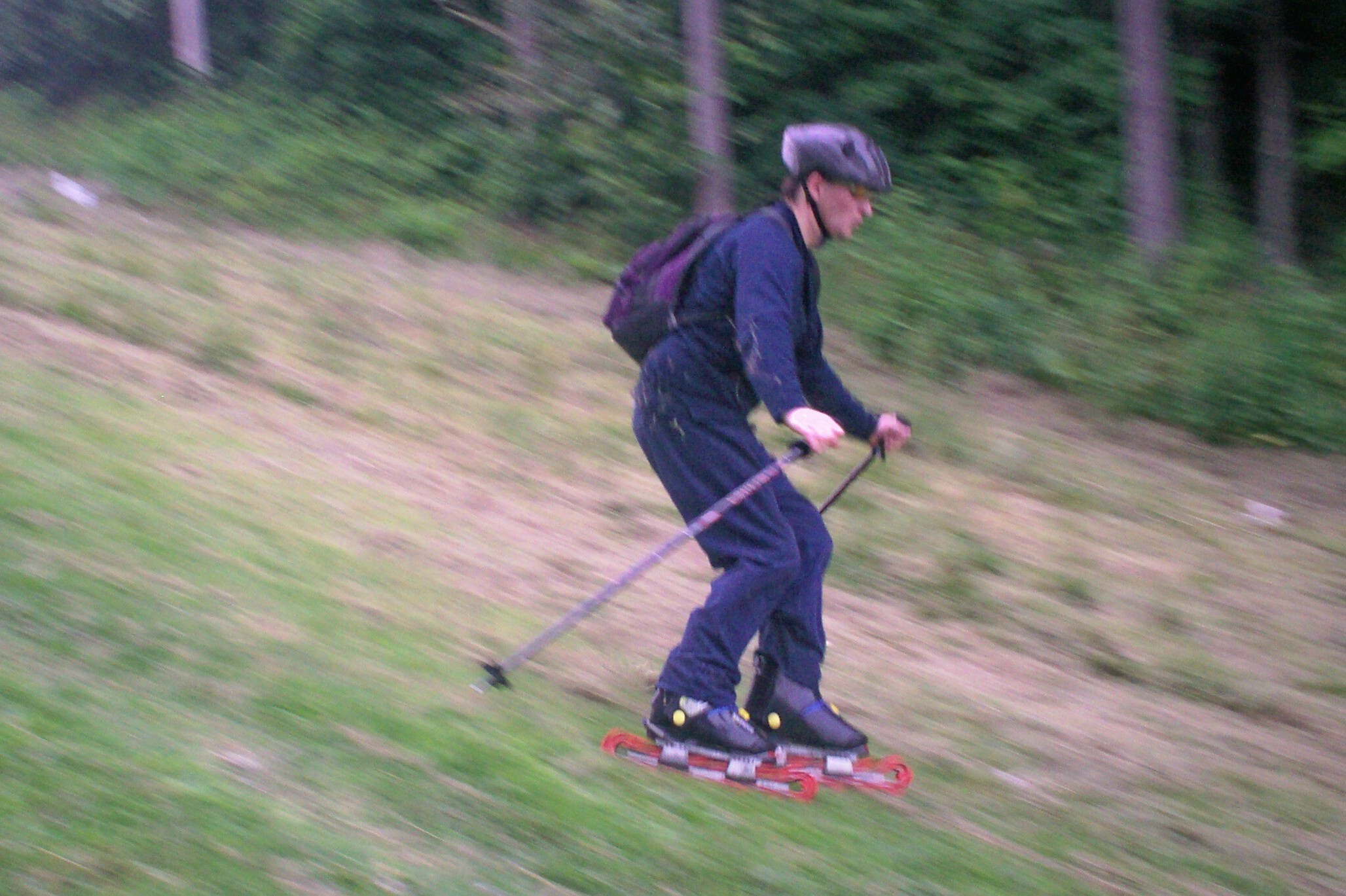 Grass skier